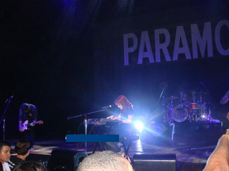 The show of Paramore in São Paulo, Brazil, on October 23, 2008